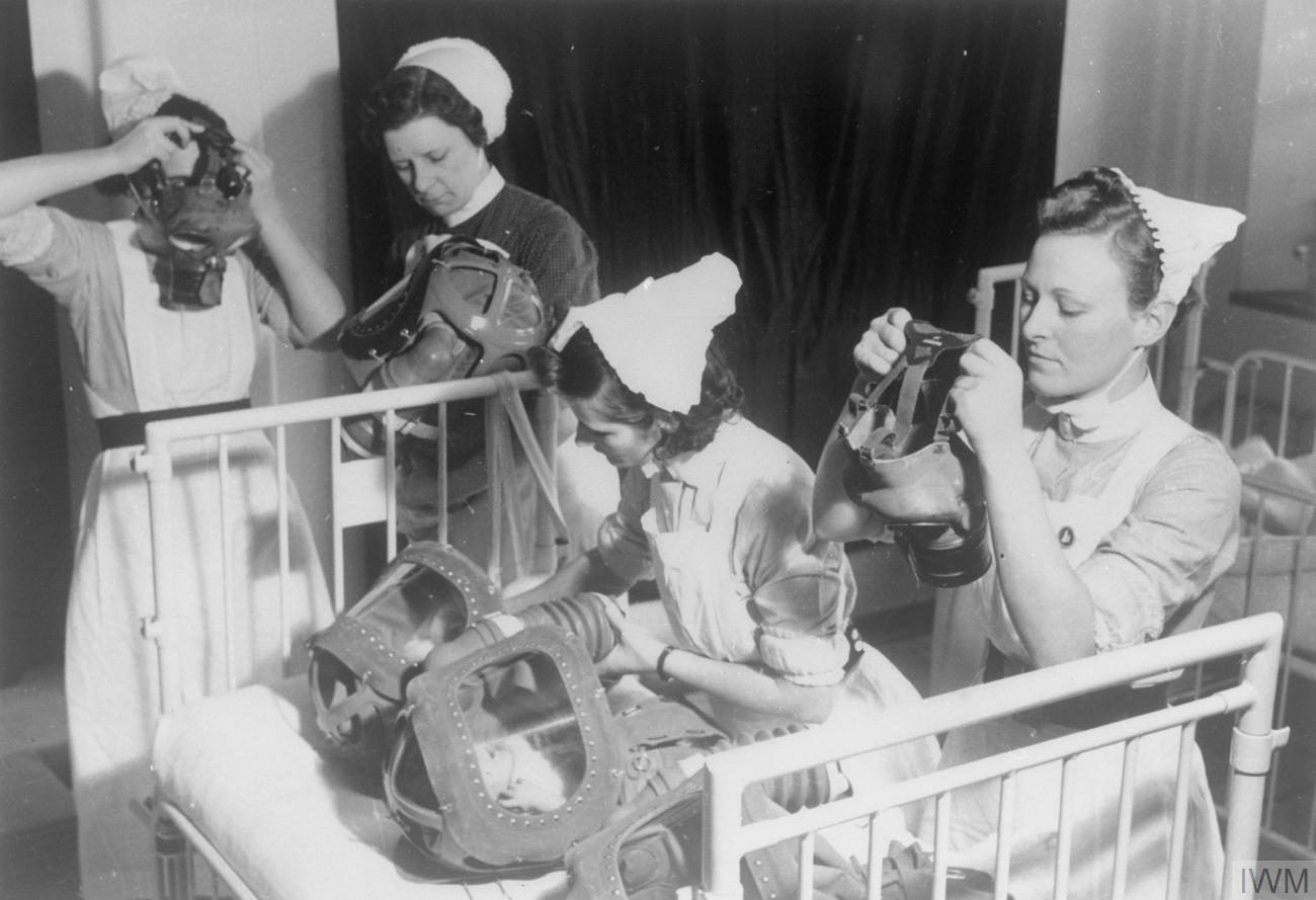 Gas Drill at a London Hospital- Gas Masks For Babies Are Tested, England, 1940 Three nurses put on their gas masks, whilst a fourth nurse attends to the gas masks of two babies in the cot in front of her. Adults were told to put on their own gas mask before helping children or other adults with theirs.